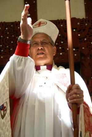 The Right Reverend Ngarahu Katene Bishop of Te Manawa O Te Wheke, giving a blessing.